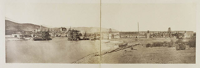 Edouard-Denis Baldus French, La Voulte-sur-Rhône, 1861 Albumen print